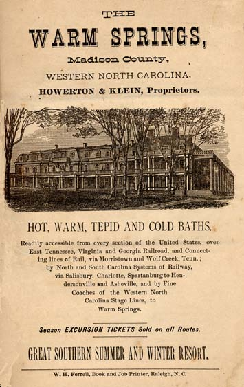 Advertisement for the Warm Springs Hotel, Madison County, North Carolina. Image courtesy of the University of North Carolina Libraries.